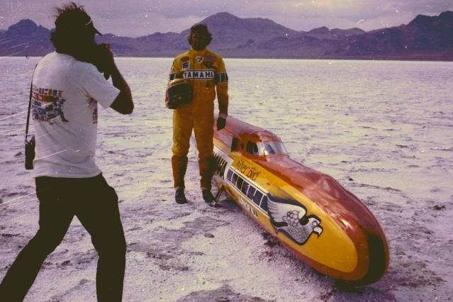 Don Vesco and Silver Bird streamliner at Bonneville Speedway Original title: Vesco-Silverbird-TZ750 Yamahas